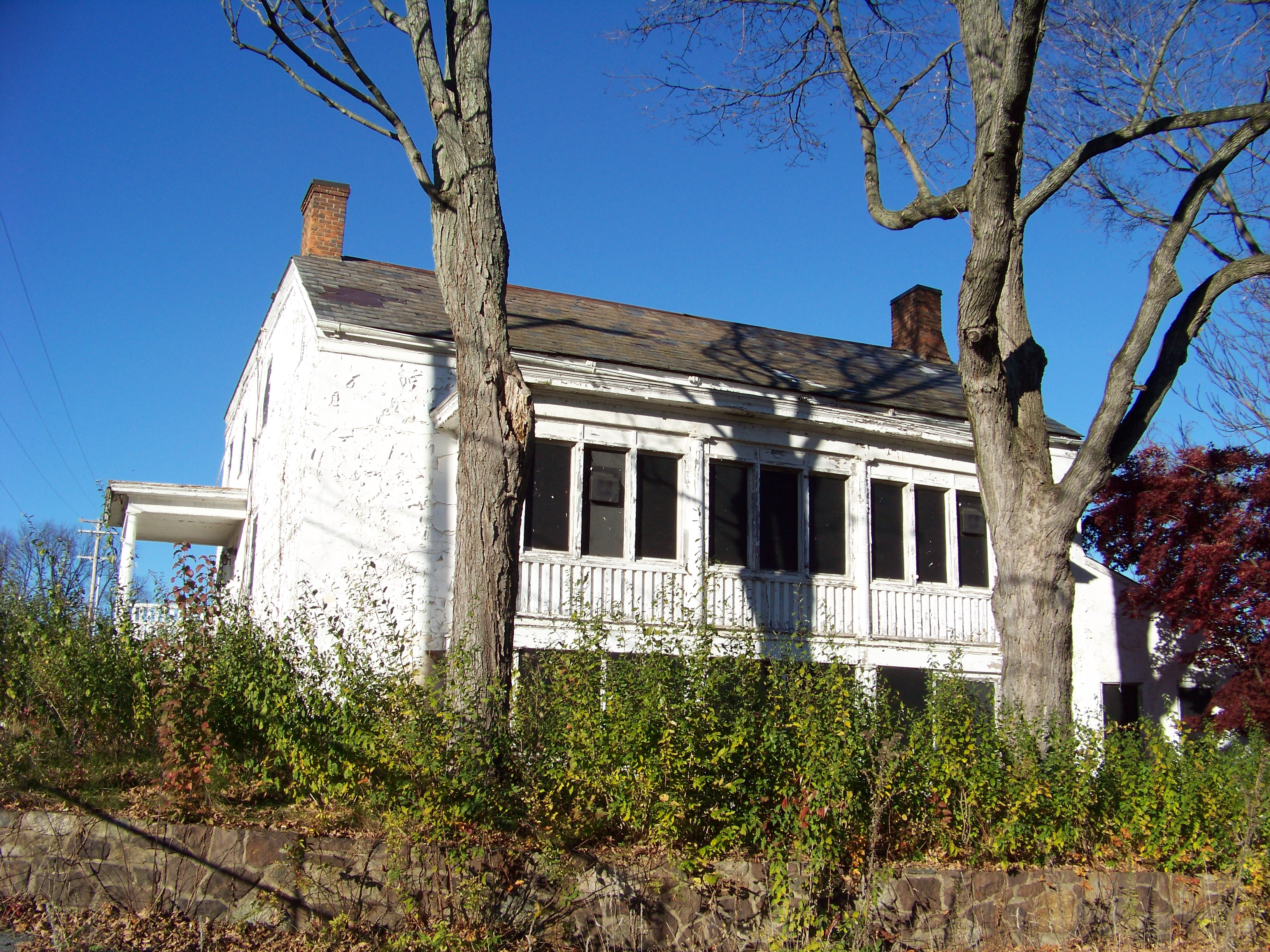 Christoper Vought House, Hunterdon County, New Jersey.